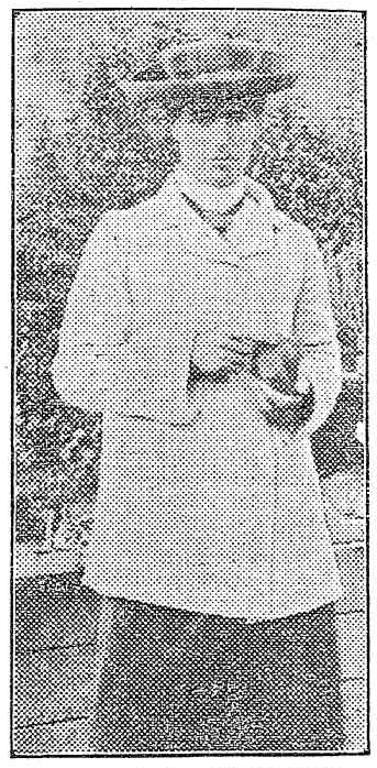 Edith Rebecca Saunders